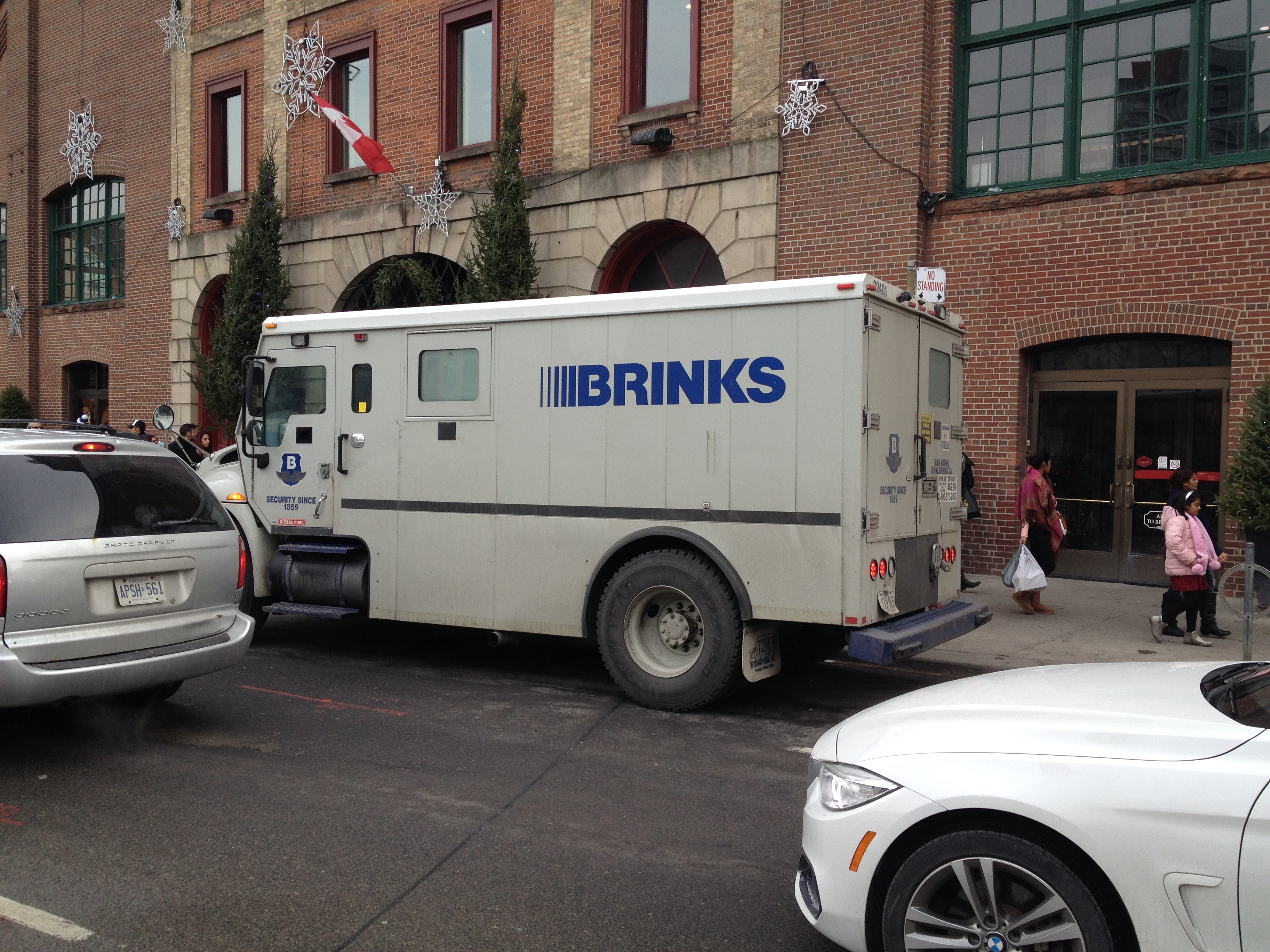 A Brinks armored van in Toronto, Ontario, Canada., vehicle # 22401.